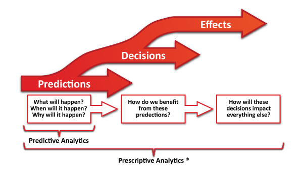 The three phases of analytics: Descriptive, Predictive, and Prescriptive